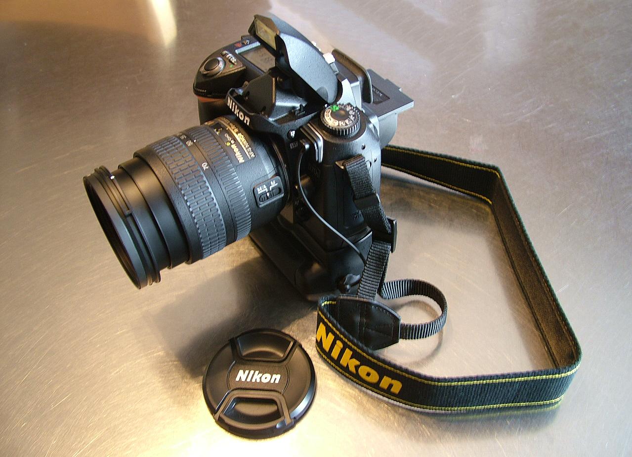 Picture of Holocron's camera.